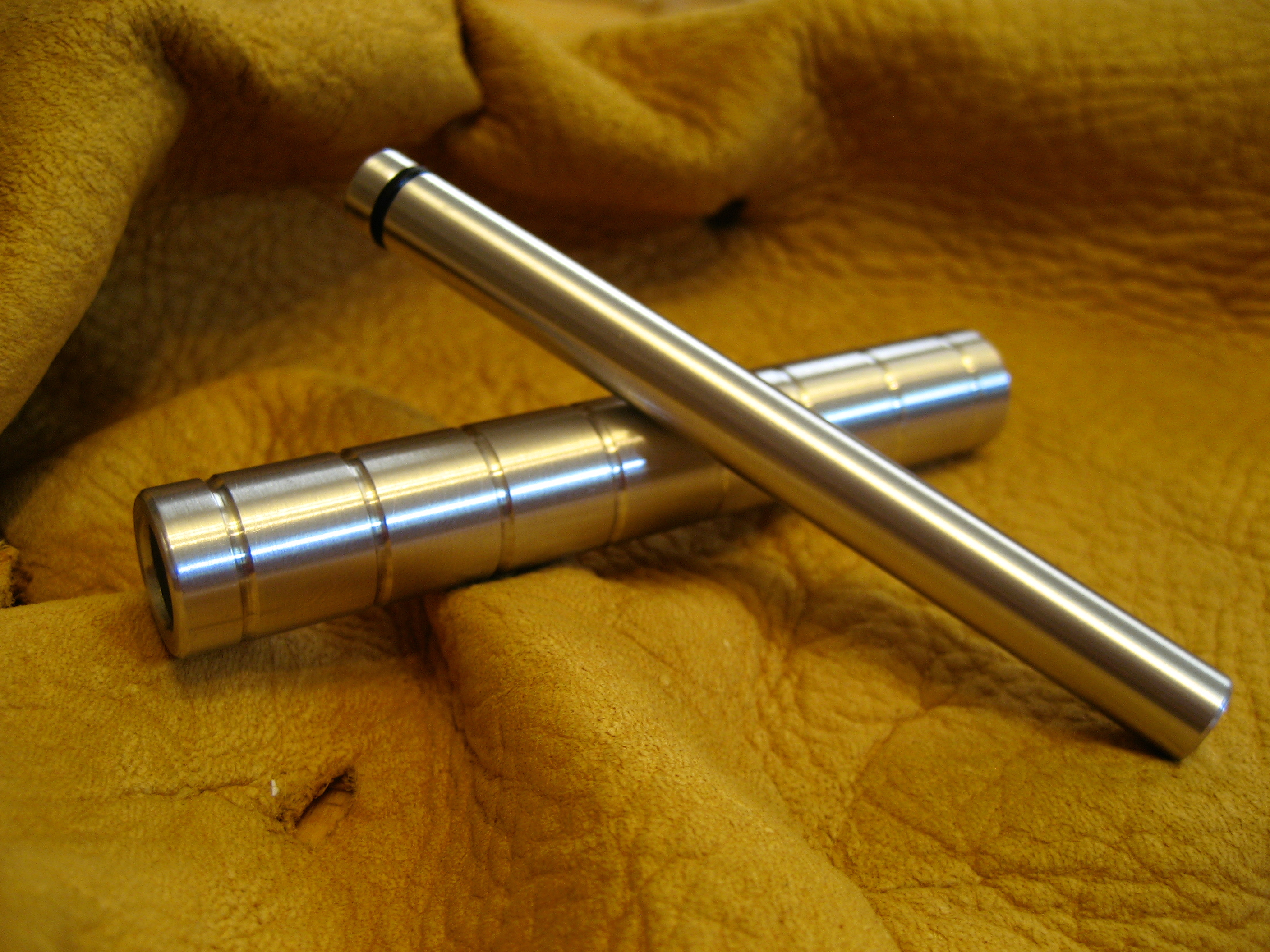 Sims Tactical Solutions modern Fire Piston made from 6061 aluminum.